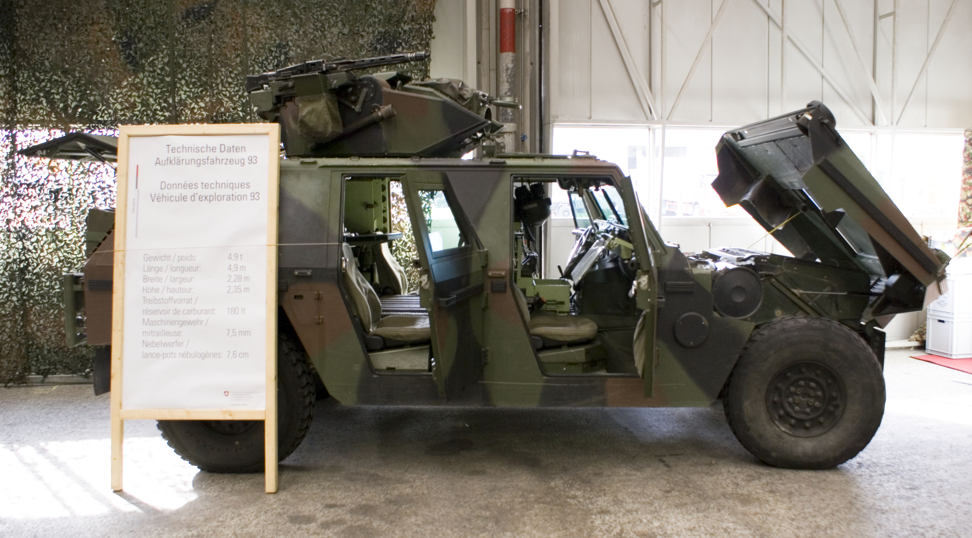 Swiss Army. Mowag Eagle reconnaissance vehicle (Aufkl Fz) 97.